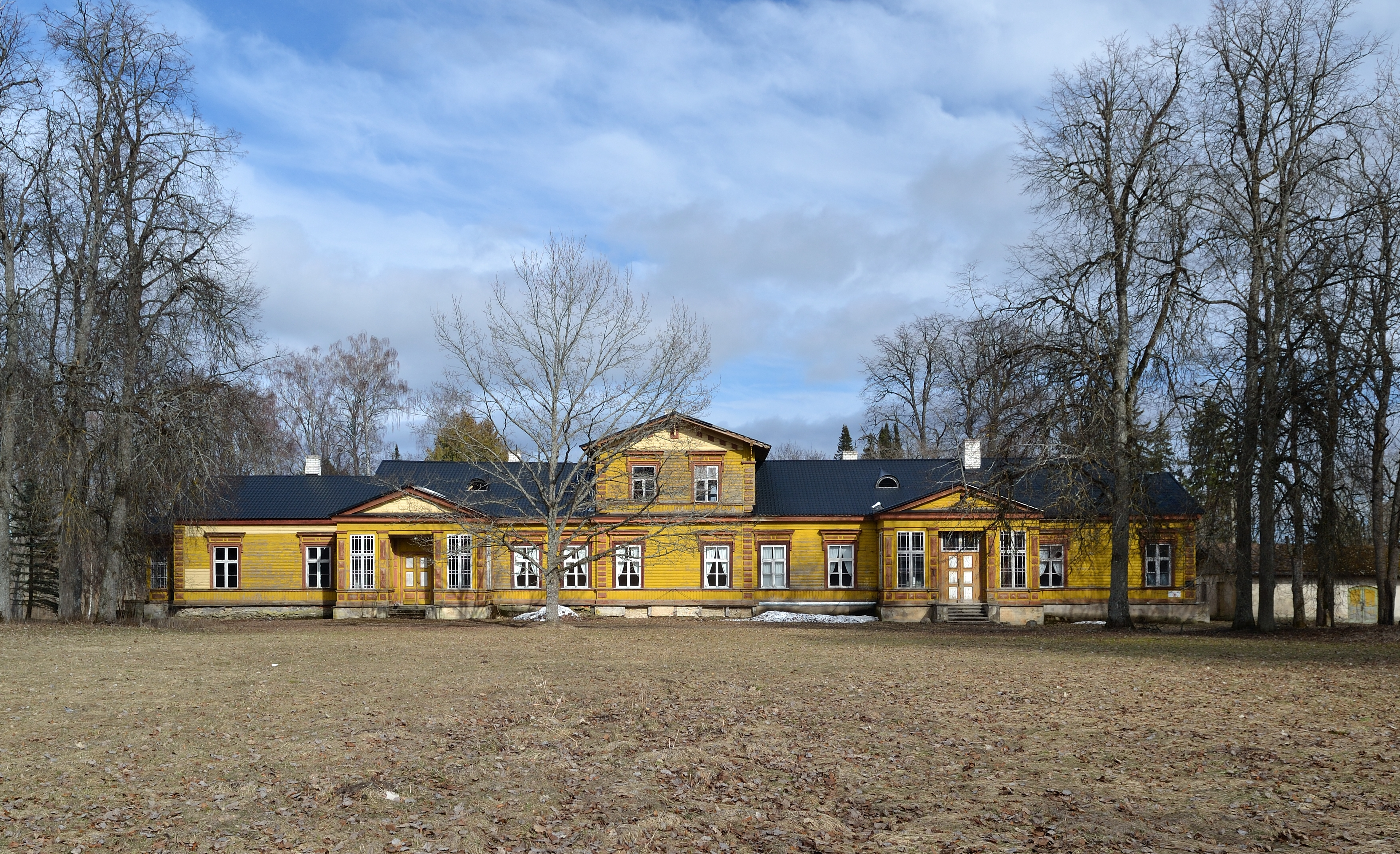 Kulina manor main building, rebuilt in 1900.